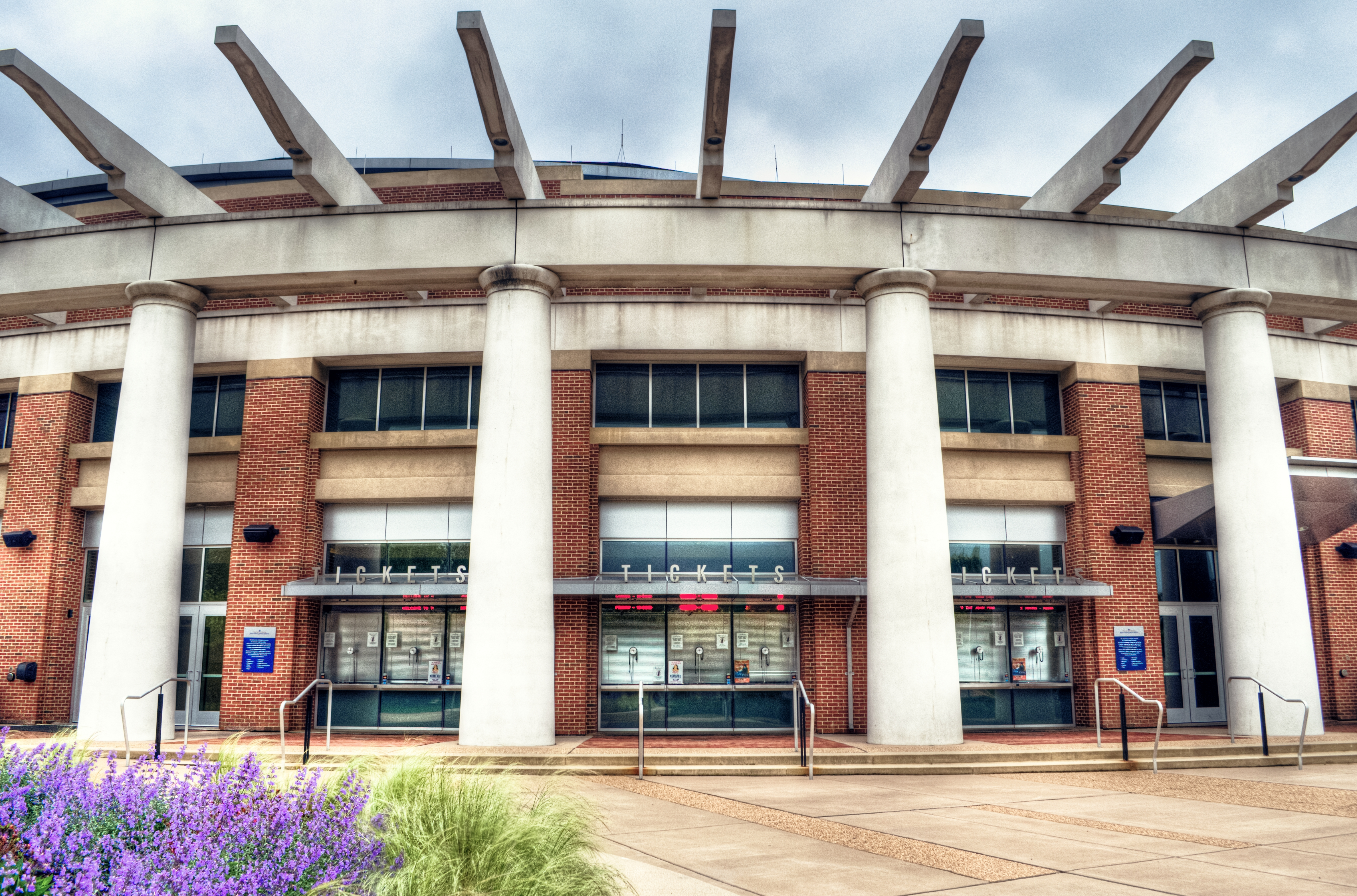 John Paul Jones Arena, home of the Virginia Cavaliers men's and women's basketball teams, in Charlottesville, VA.